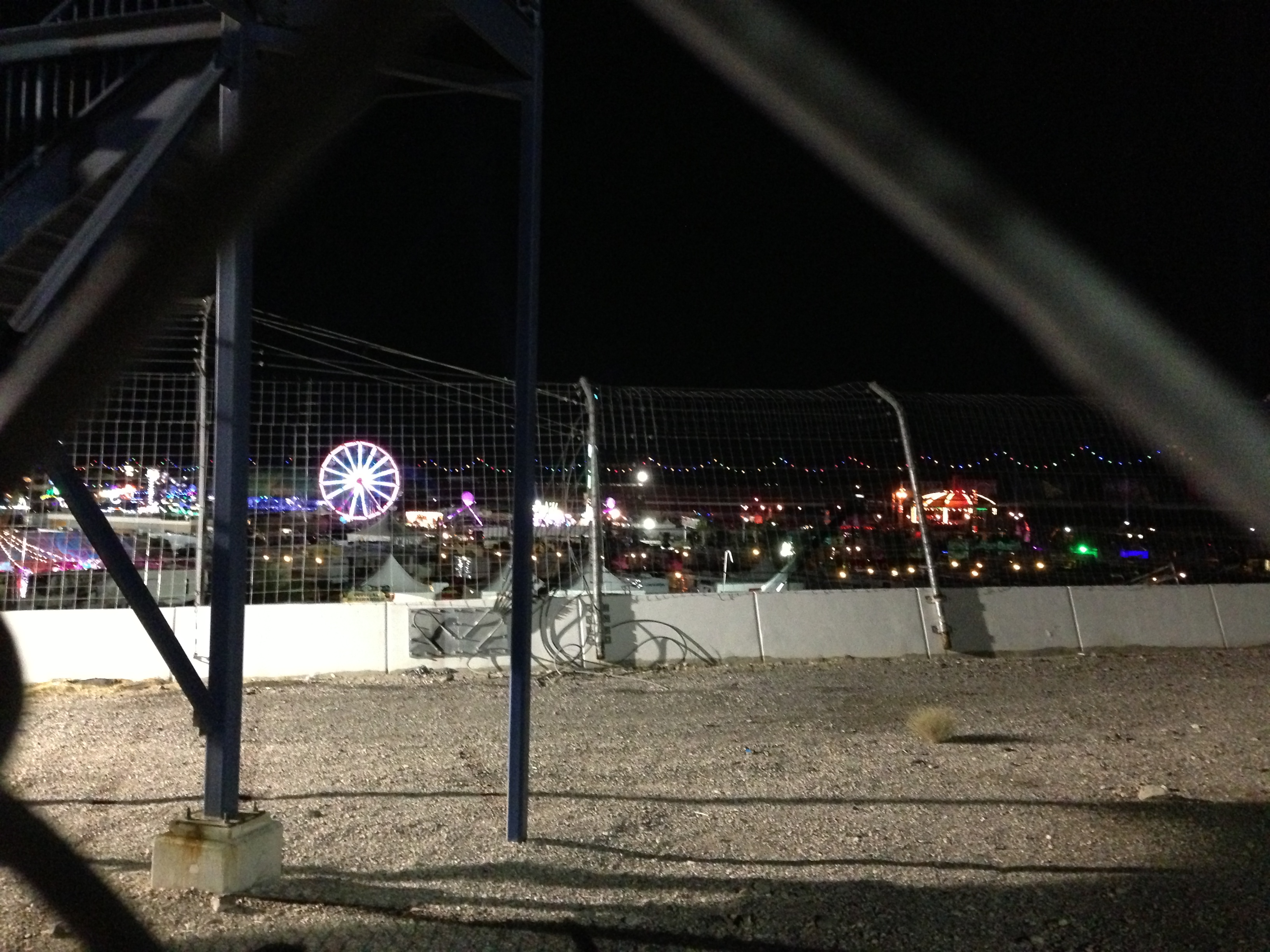 Electric Daisy Carnival